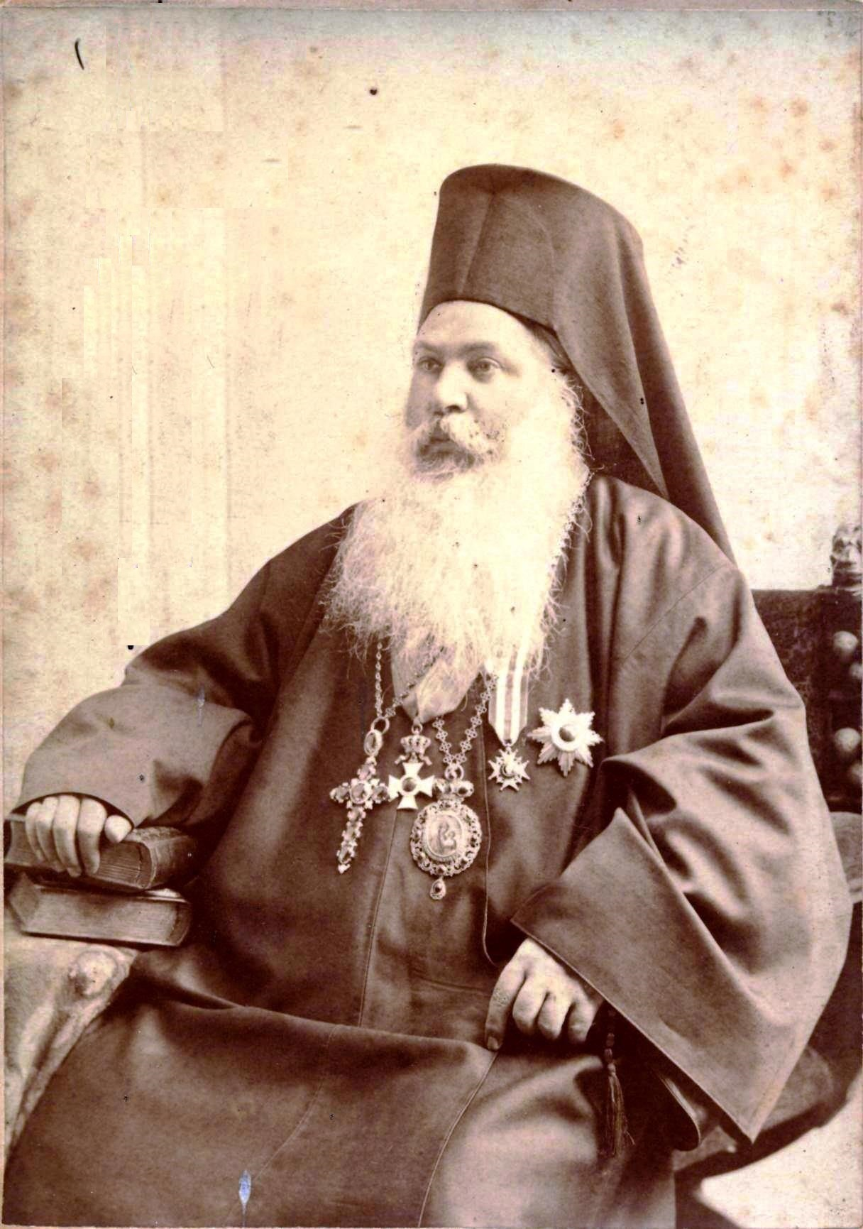 Parthenius of Sofia